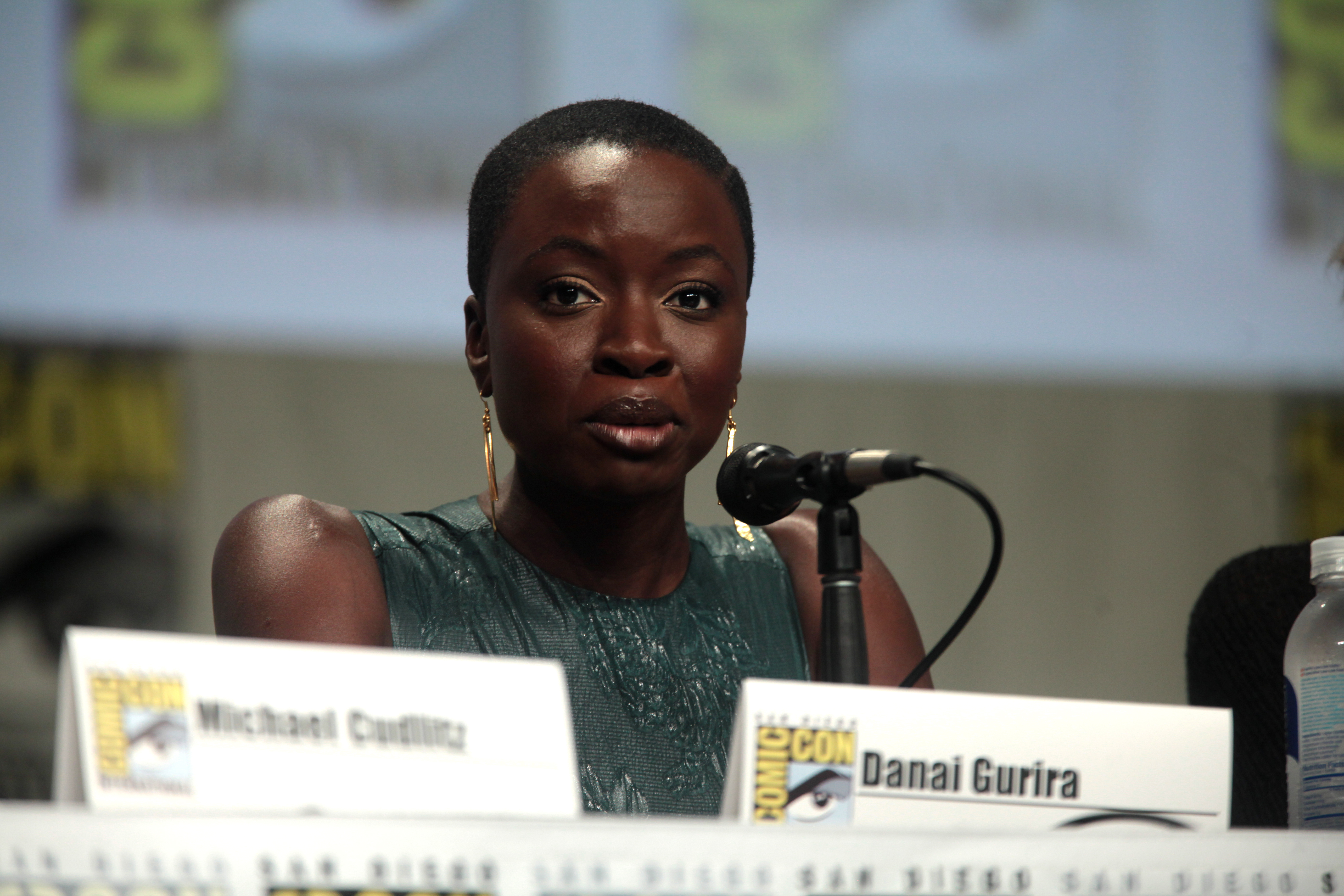 Danai Gurira speaking at the 2014 San Diego Comic Con International, for "The Walking Dead", at the San Diego Convention Center in San Diego, California.